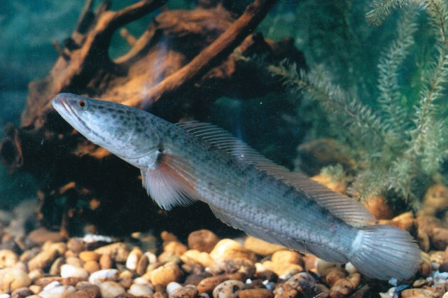 Channa striata